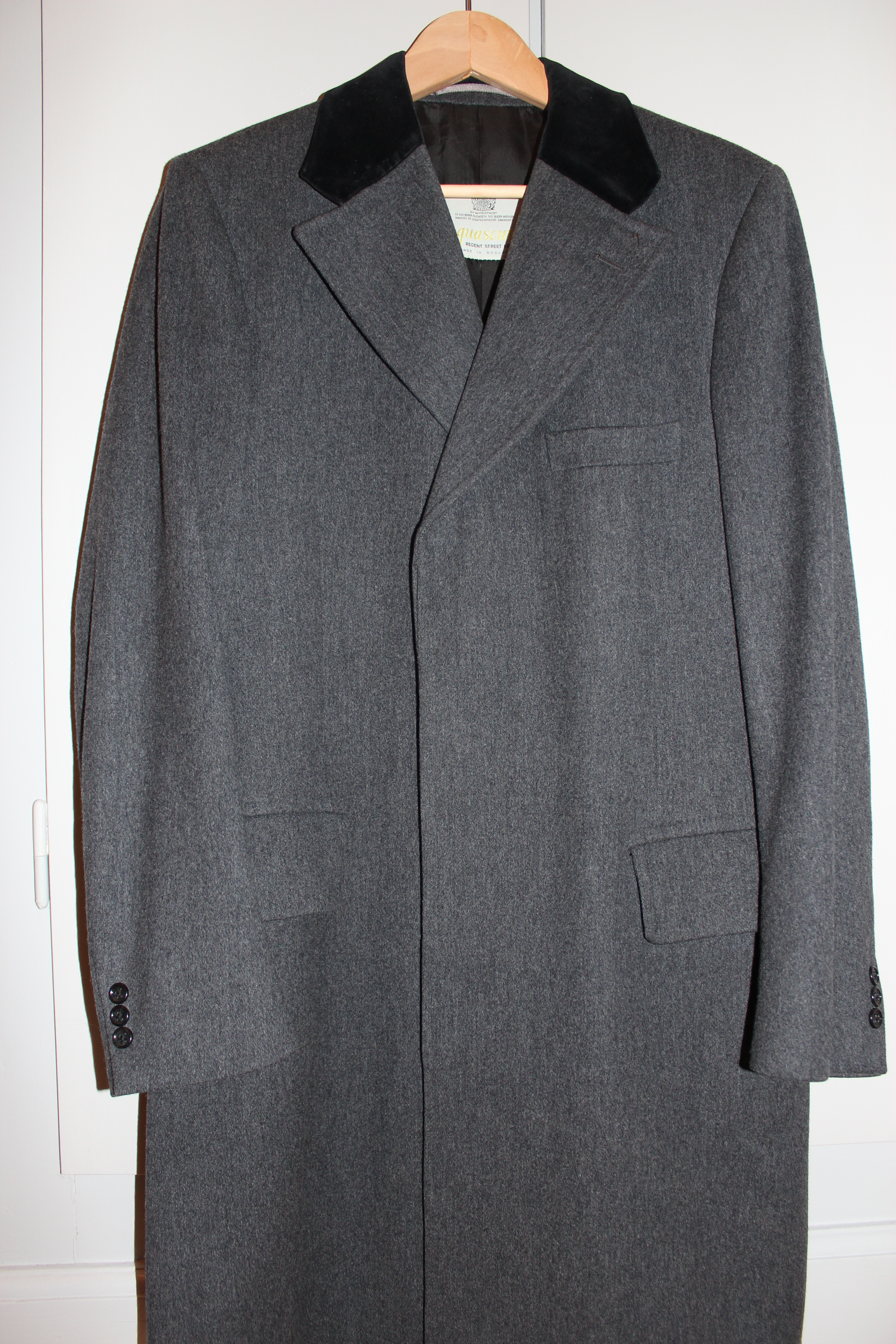 Grey covert coat with black velvet collar. From the British retailers Aquascutum.